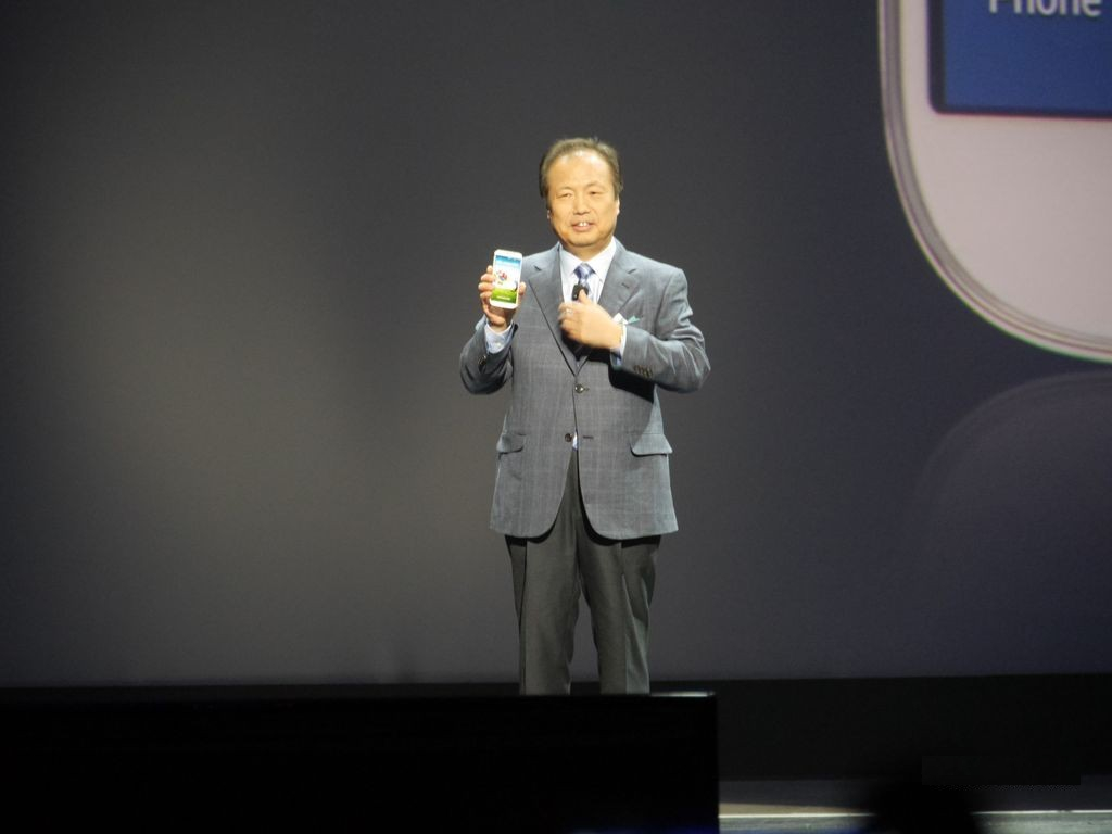 Presentation of Samsung Galaxy S4 (2013-03-14).